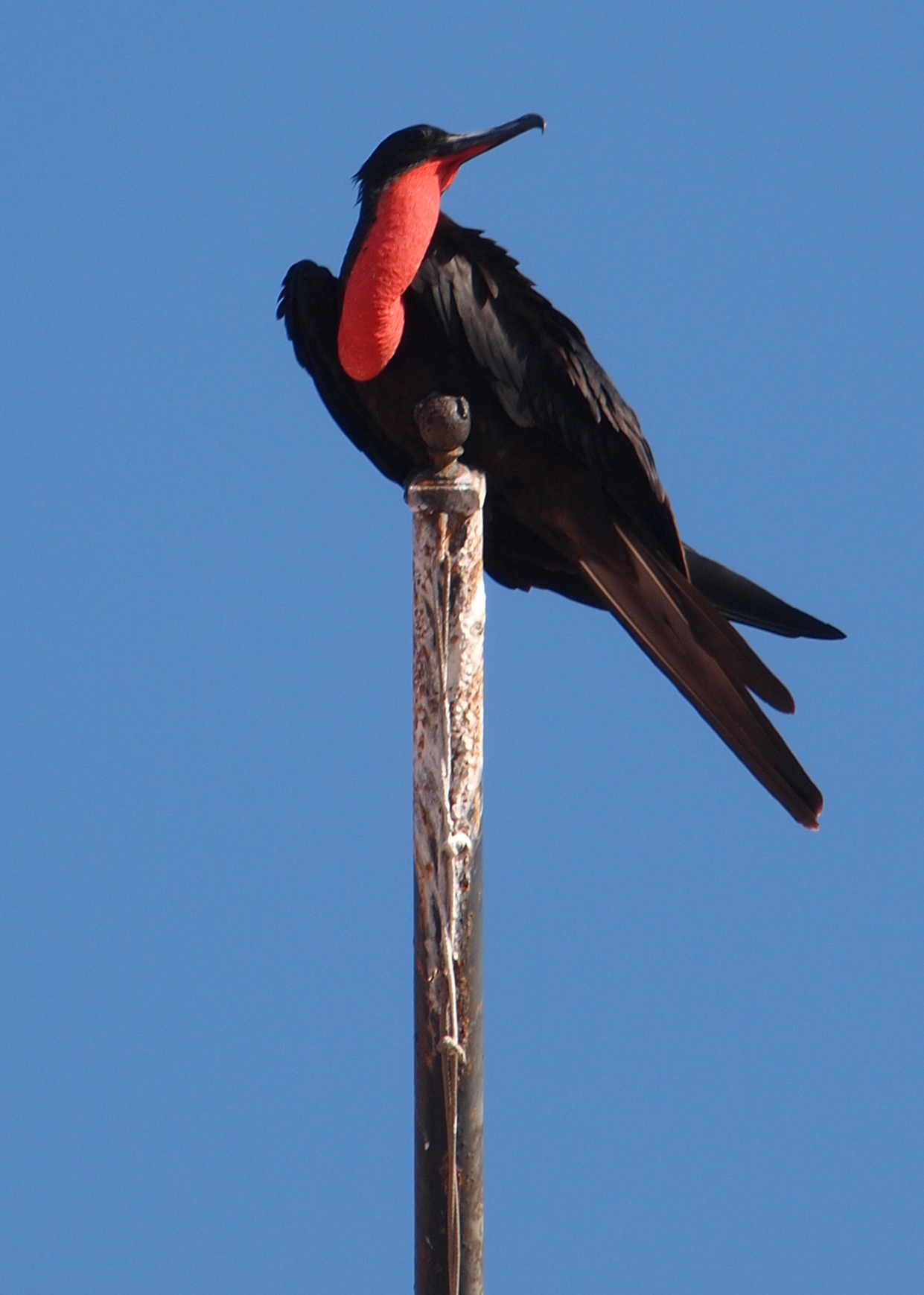 A male Magnificent Frigatebird in Puerto Vallarta, Mexico.